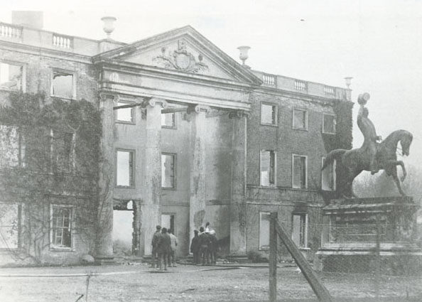 Olantigh House in Kent, following the devastiating fire of 1903. The equestrian statue is of John Samuel Wanley Sawbridge (d.1887), (who after his marriage adopted the surname "Erle-Drax") of Olantigh Towers in Kent, and Holnest House in Dorset, MP for Wareham, who in 1827 married Jane Frances Erle-Drax (d.1853), heiress of Charborough.